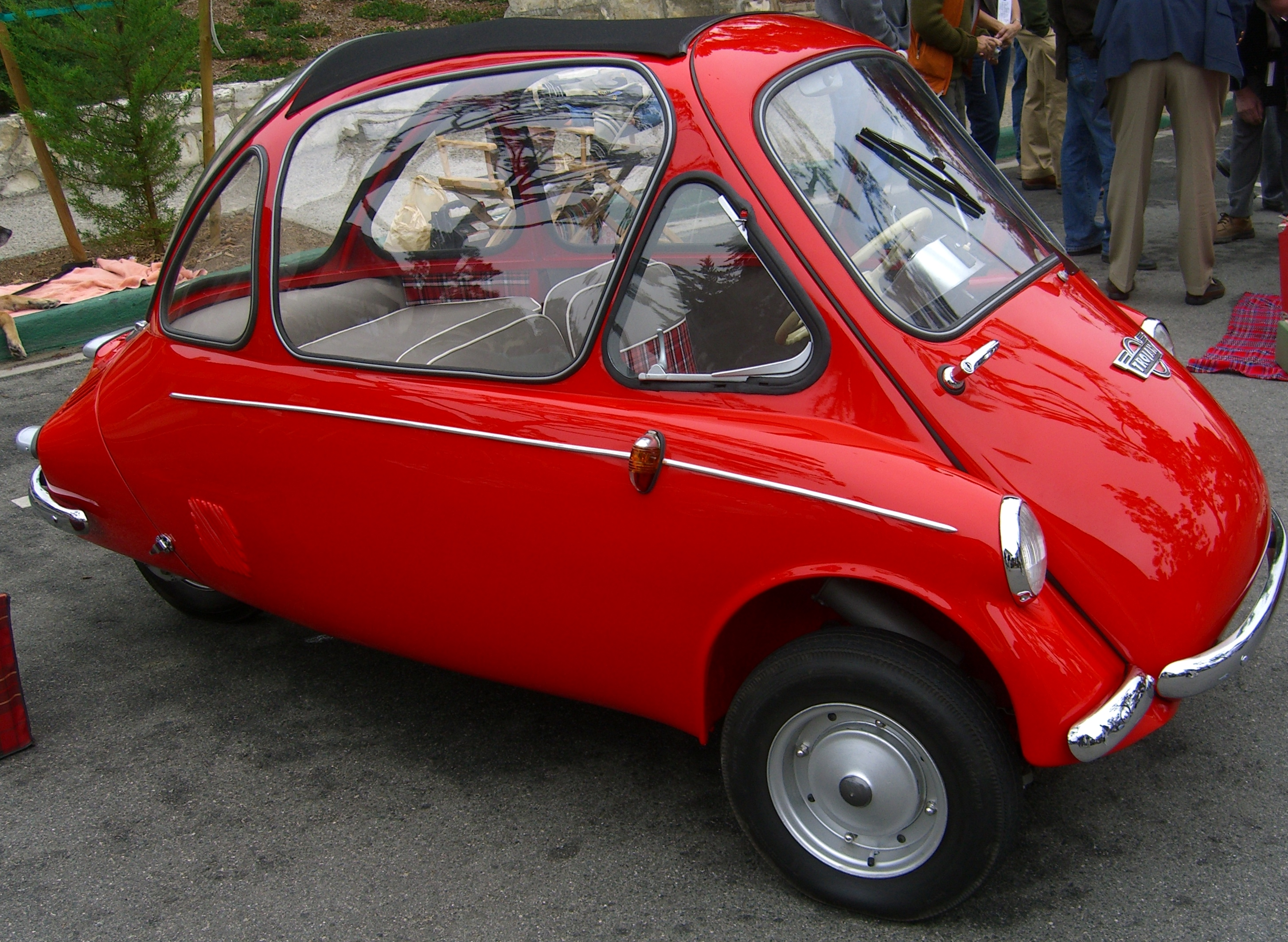 1963 Trojan 200 version of Heinkel bubble car. Trojan bought the manufacturing rights in 1961.